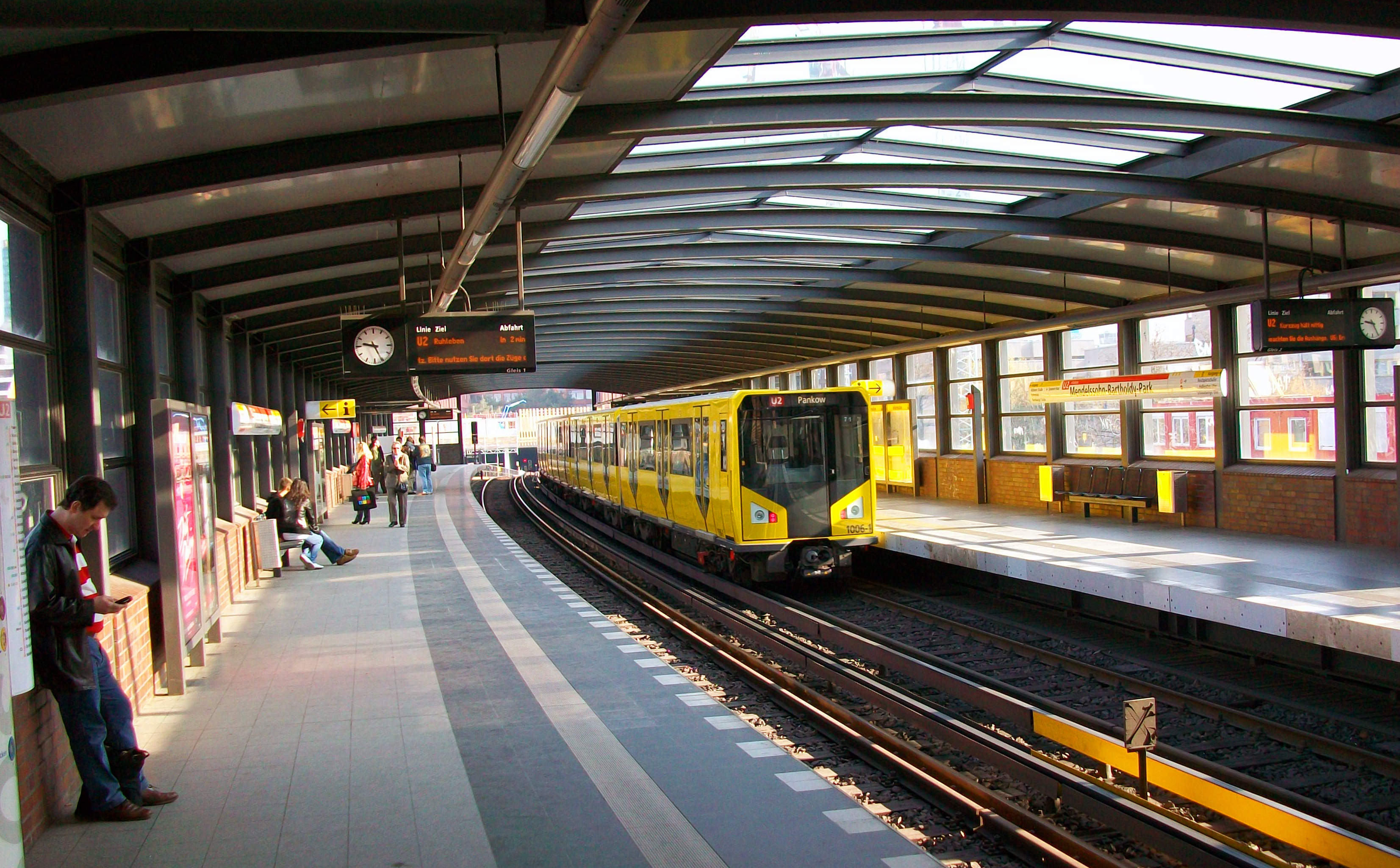 Eastward view of Mendelssohn-Bartholdy-Park U-Bahn station, Berlin, with Pankow-bound U2 train departing